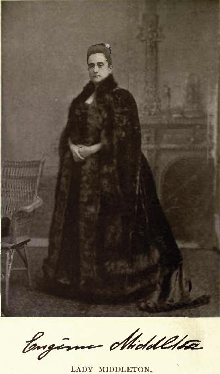 Lady Marie Cecile Eugenie Middleton (wife of Frederick Dobson Middleton), photographed by William James Topley